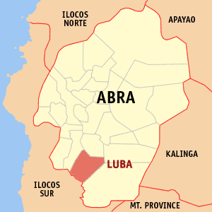 Map of Abra showing the location of Luba